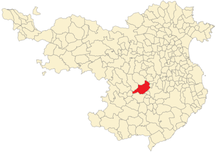 Sant Gregori